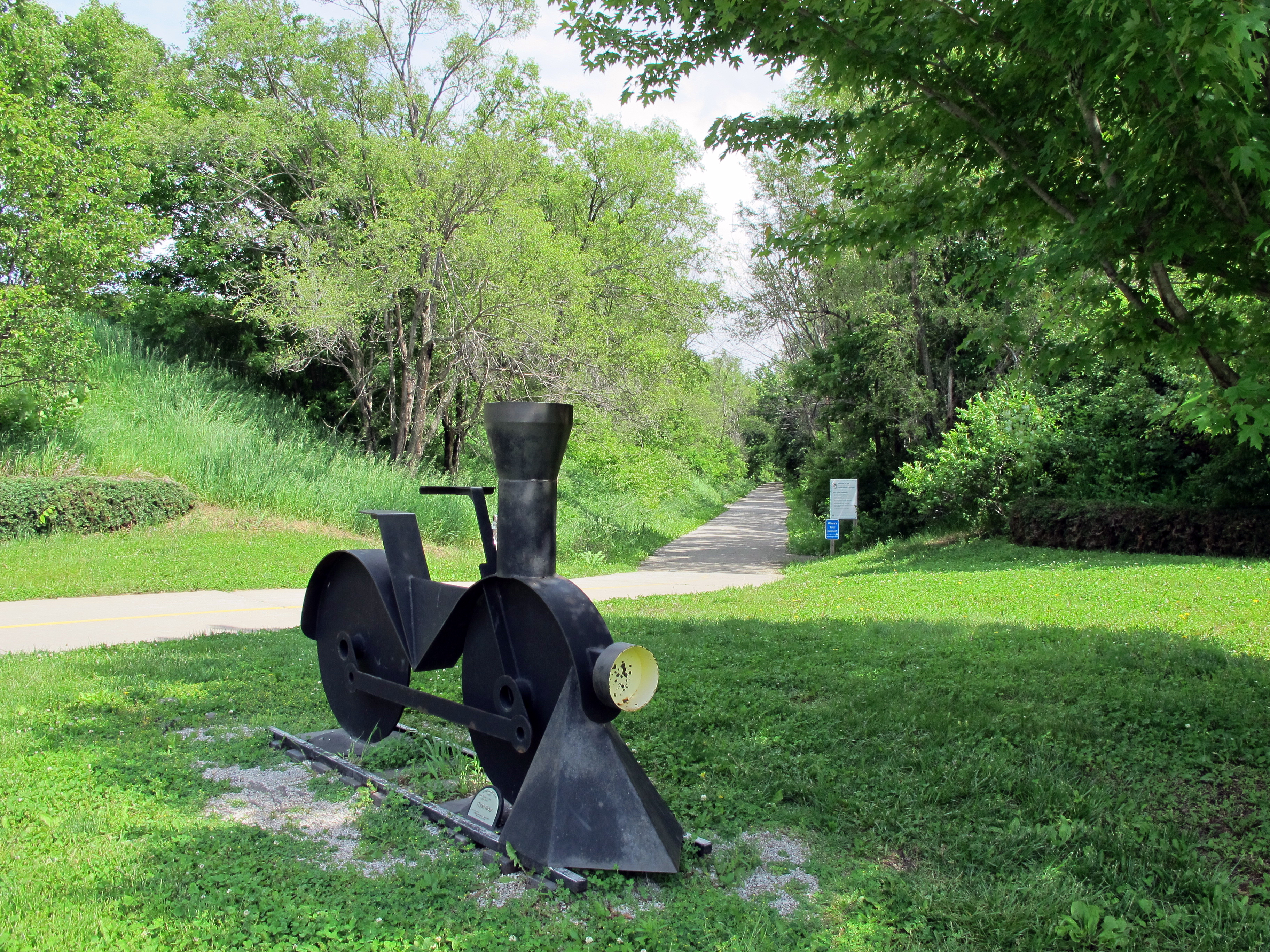 Photo of the entrance, from far, onto the MoPac Trail East at the Novartis Trailhead; S. 84th Street & N. Hazelwood Drive in Lincoln, Nebraska. The trailhead is located east of the S. 84th & N. Hazelwood intersection; photo is looking east-southeast at the start of the trail. The trail is a combination hiking/biking trail and also a horse trail a couple of miles to the east.